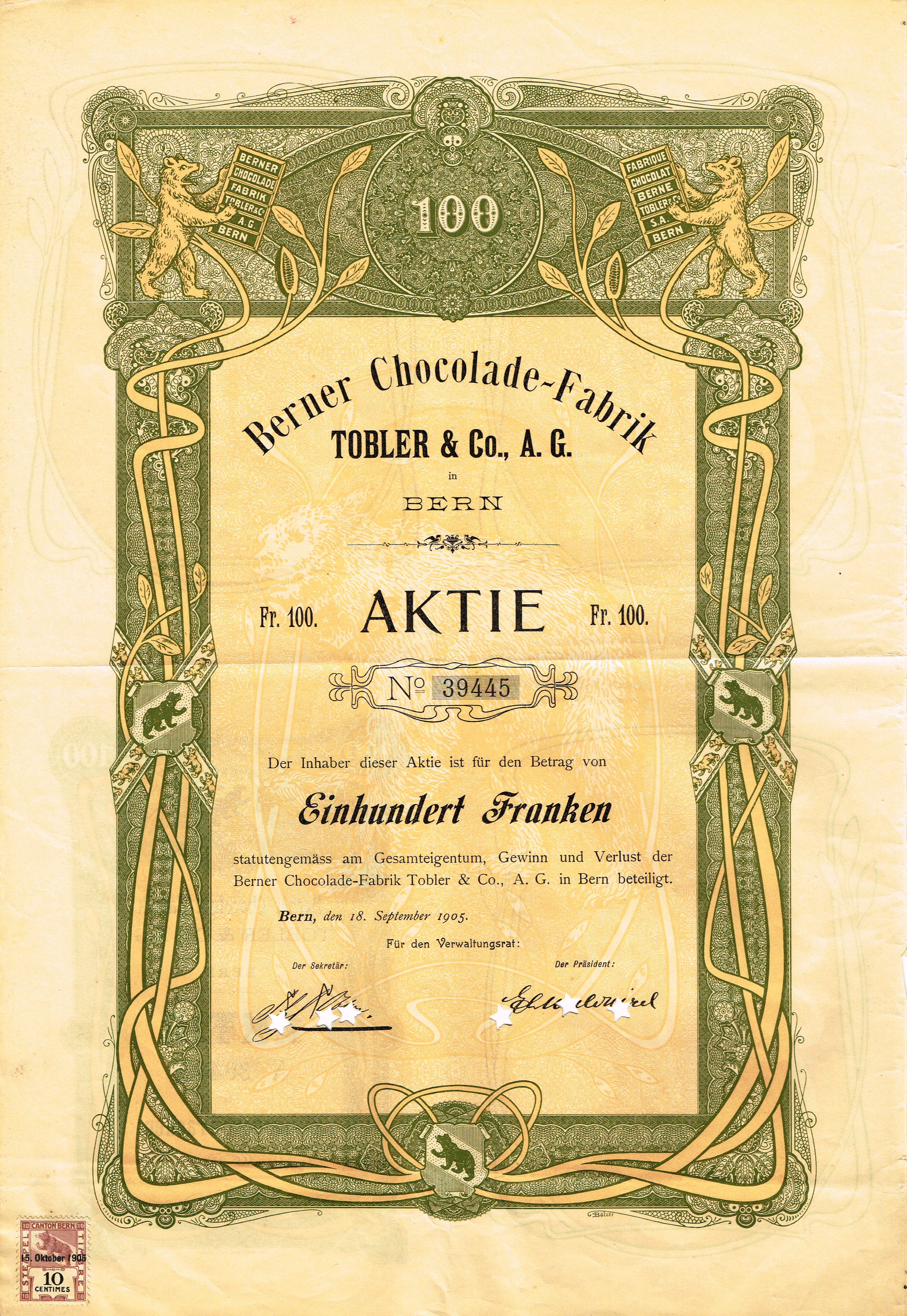 Share of the Berner Chocolade Fabrik Tobler & Co., AG, issued 18.September 1905